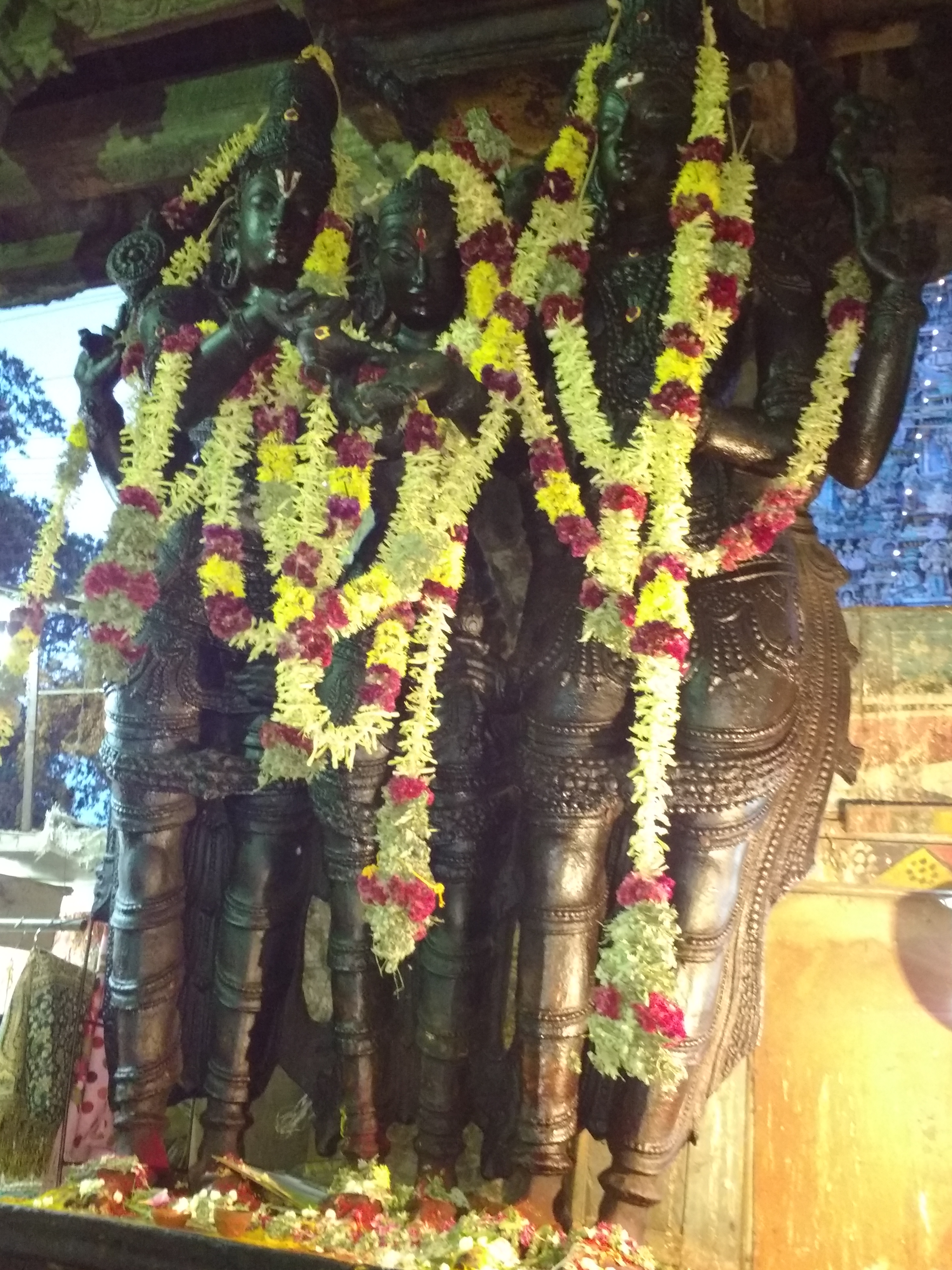 Meenakshi marriage with Lord Shiva